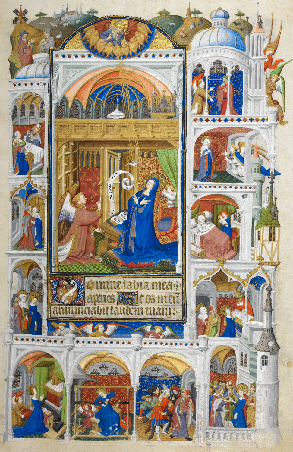 Miniature of the Annunciation, with scenes from the life of the Virgin; from BL Add MS 18850, f. 32r (the "Bedford Hours"). Held and digitised by the British Library.